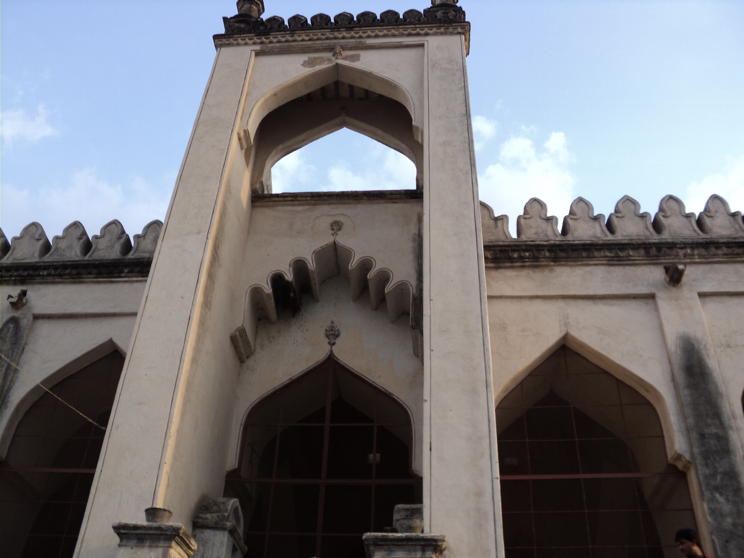 Gulbarga fort and great mosque in it